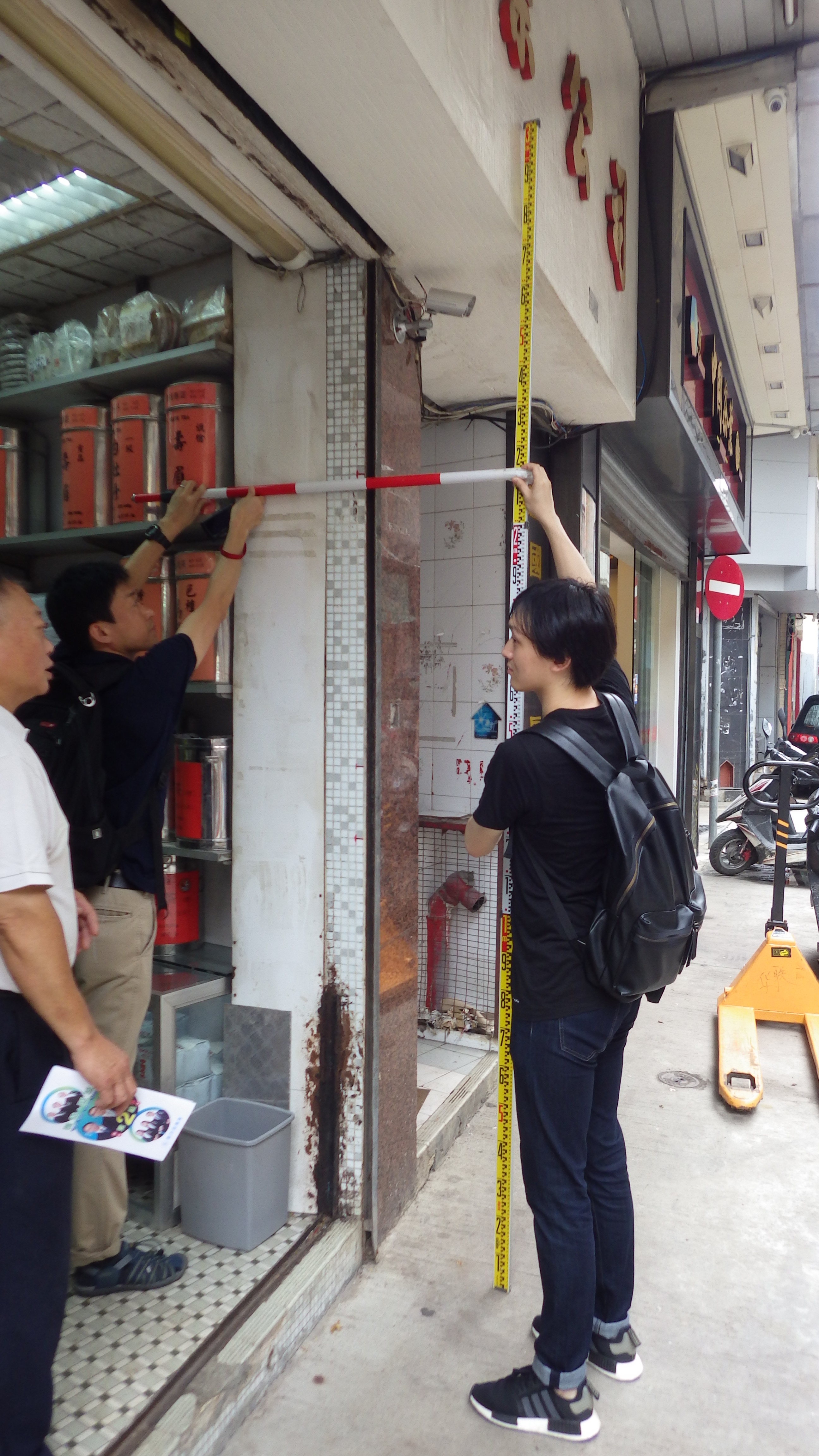 Storm-surge inundation in Macau